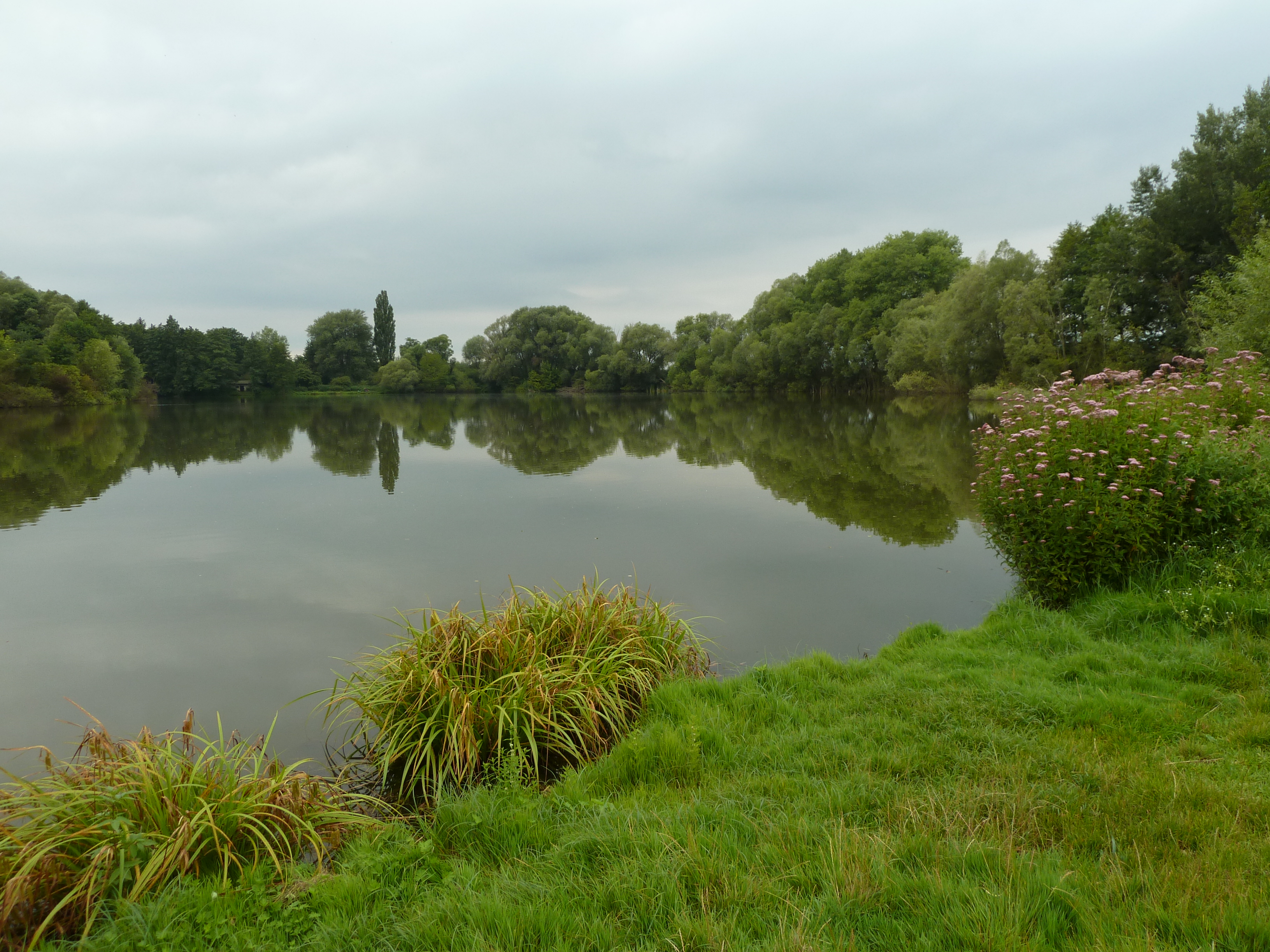 National natural monument Hrdibořické rybníky (central Moravia, Czech Republic) - pond Raška